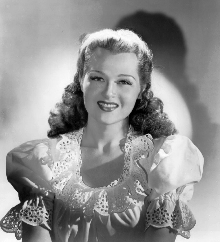 Photo of Jo Stafford from the cover of the July 1948 issue of Best Songs magazine. the magazine published the lyrics to the popular songs of the day.